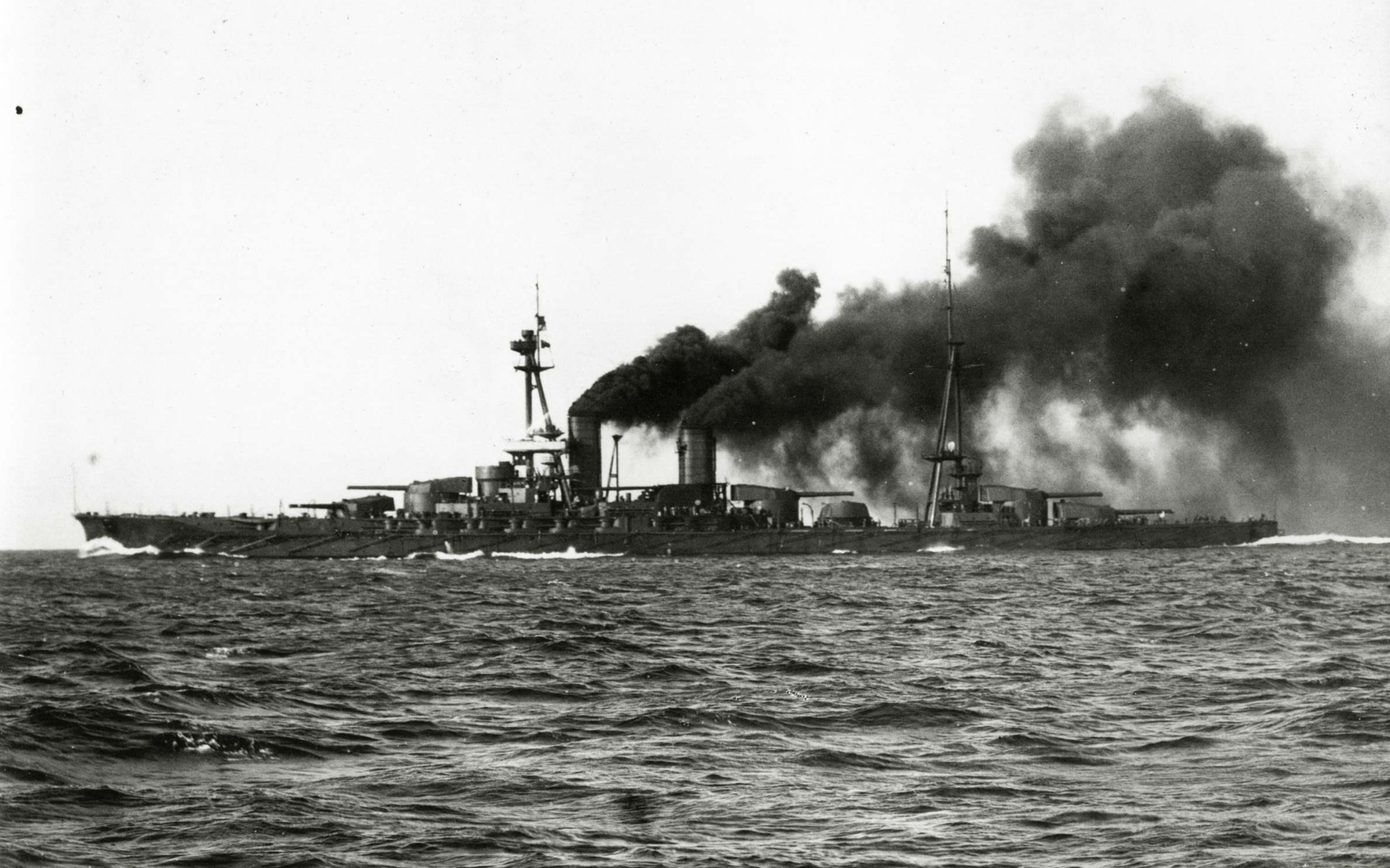 Hyuga shortly after completion